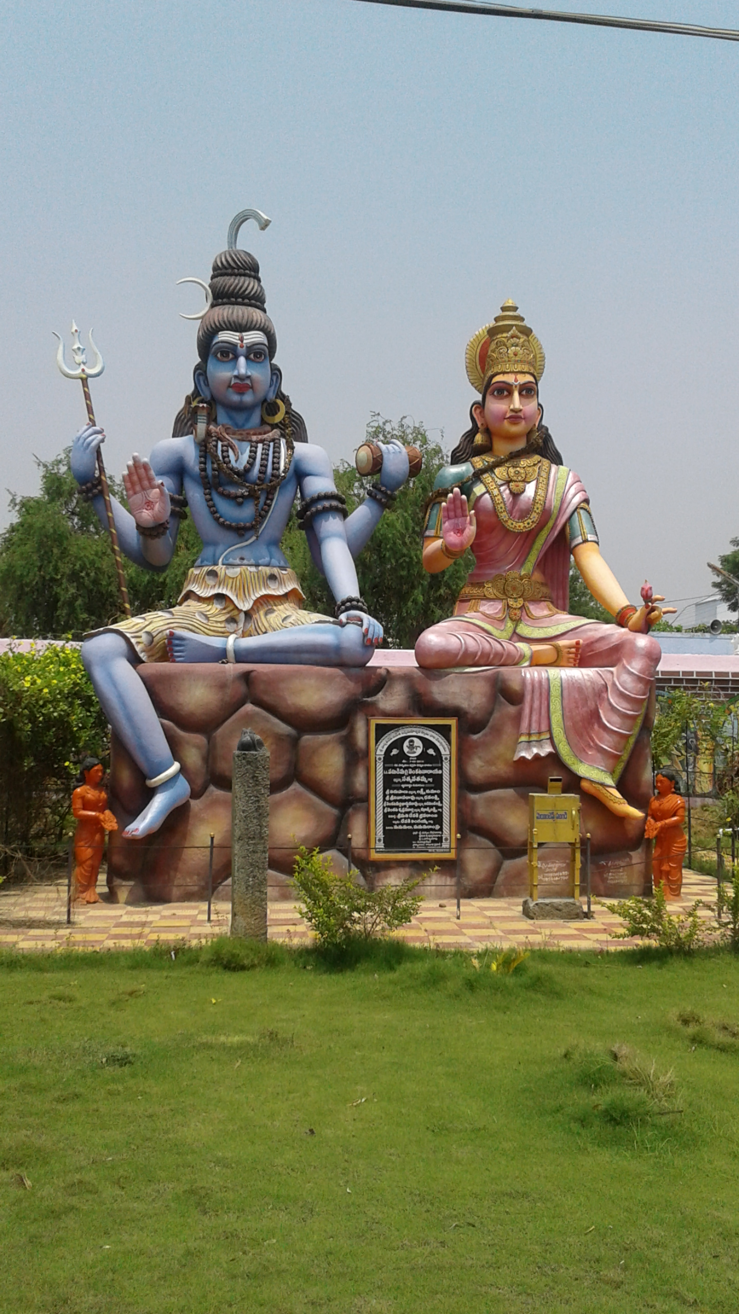 This Photo is Captured by Haranath Boggarapu on 27th April 2017.